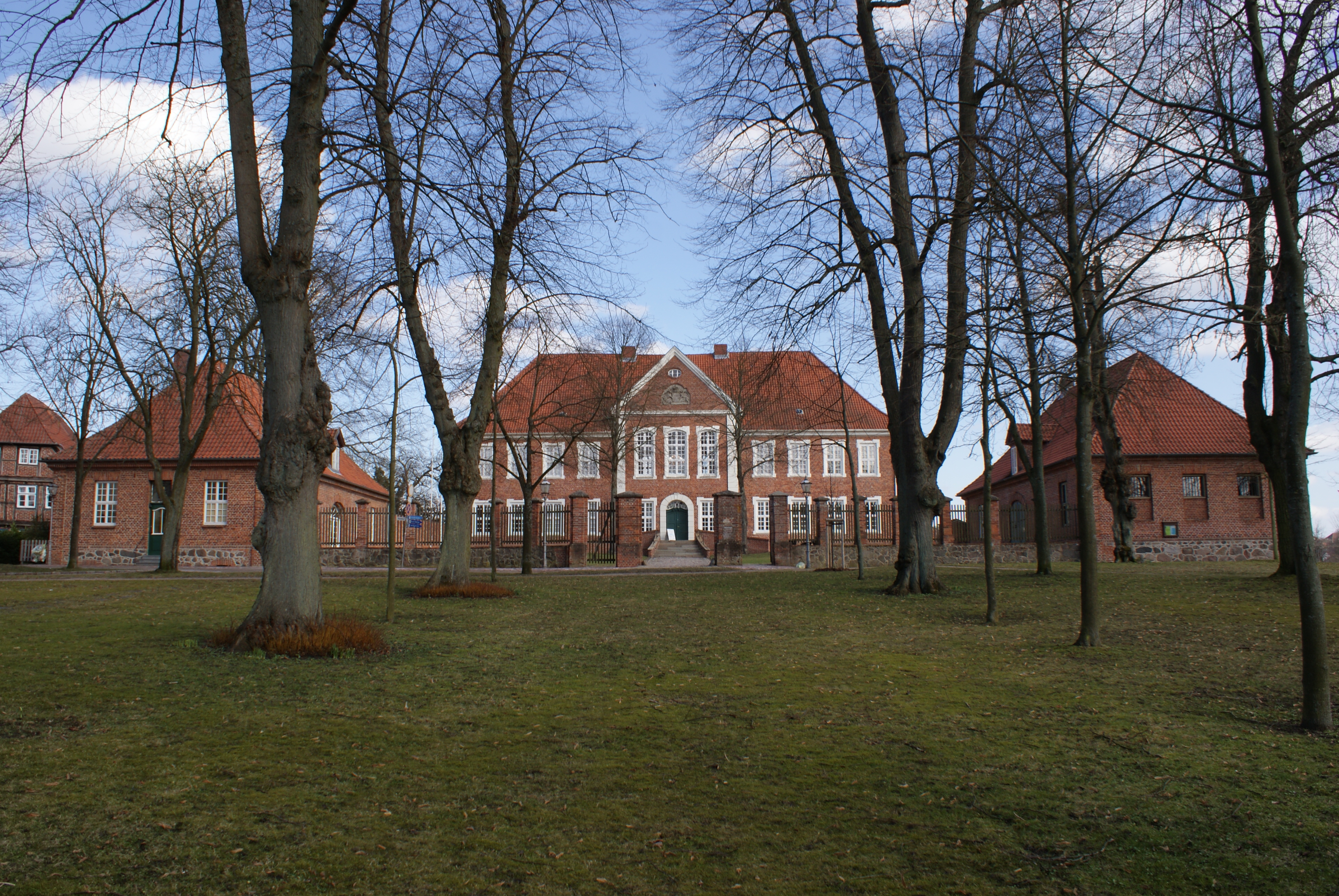 Manor at Ratzeburg